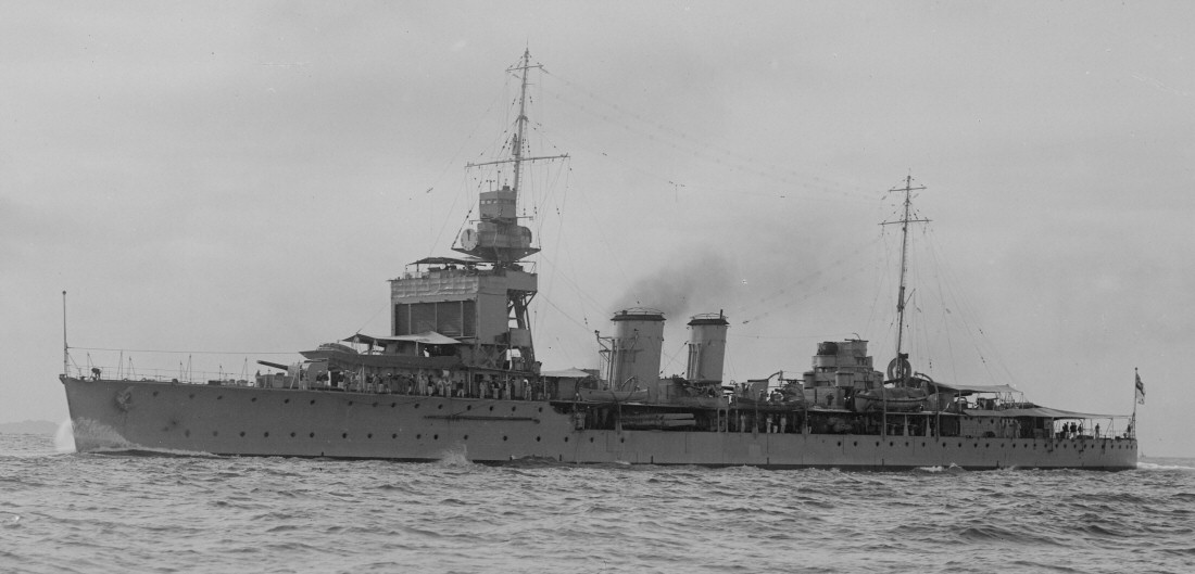 Ligh cruiser HMS Dragon with early hangar superstructure